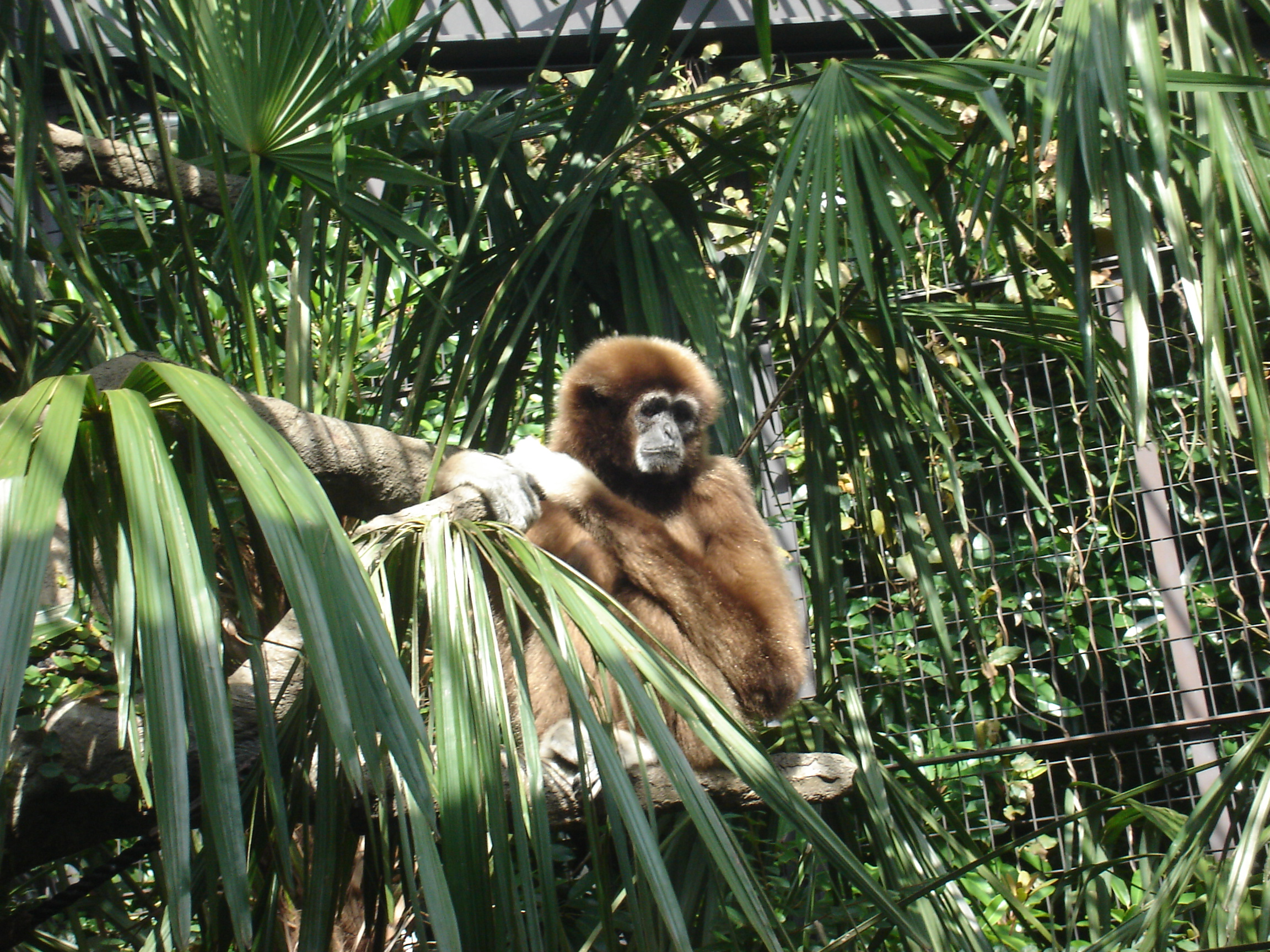 Lar Gibbon also known as the White-handed Gibbon (Hylobates lar) at Ueno Zoo, Tokyo, Japan.